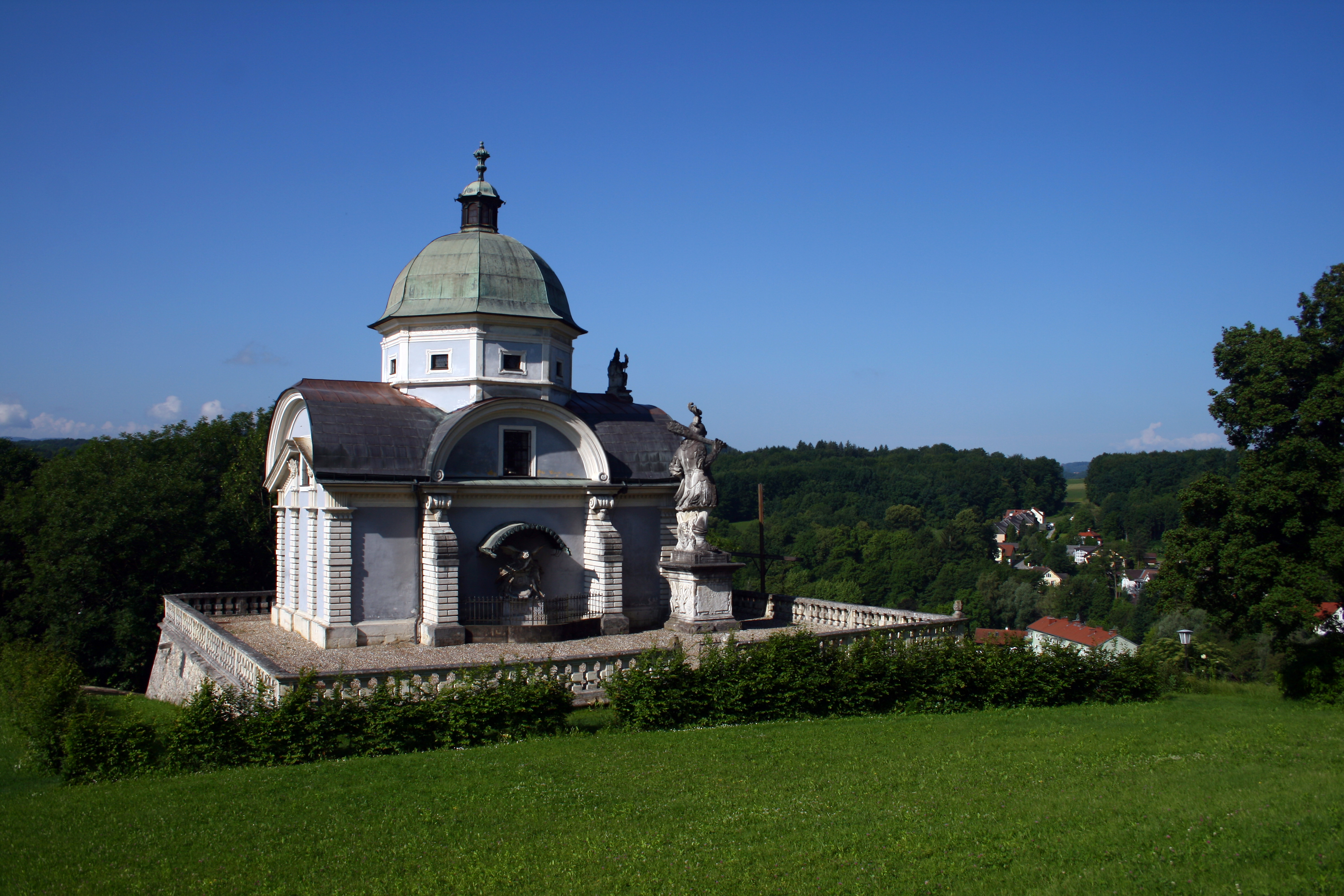 Mausoleum Ruprecht von Eggenberg, Ehrenhausen, Styria, Austria